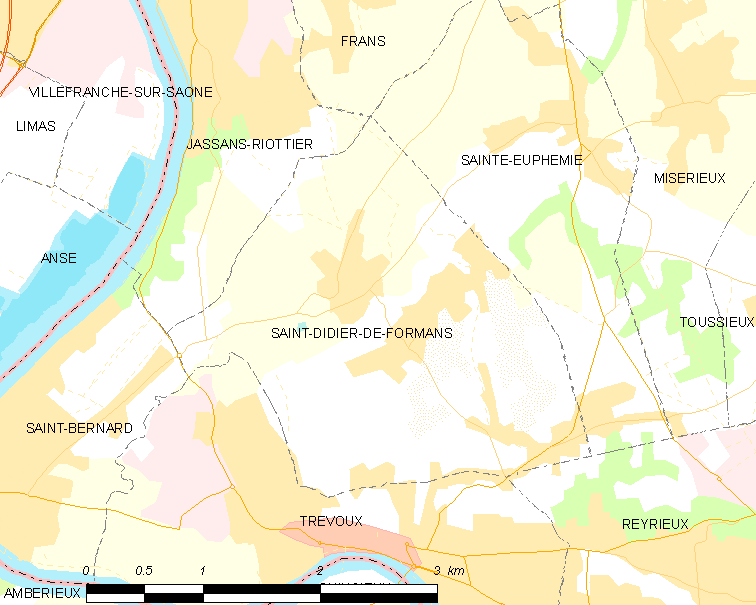 Map of French commune: Saint-Didier-de-Formans Map commune FR insee code 01347.png